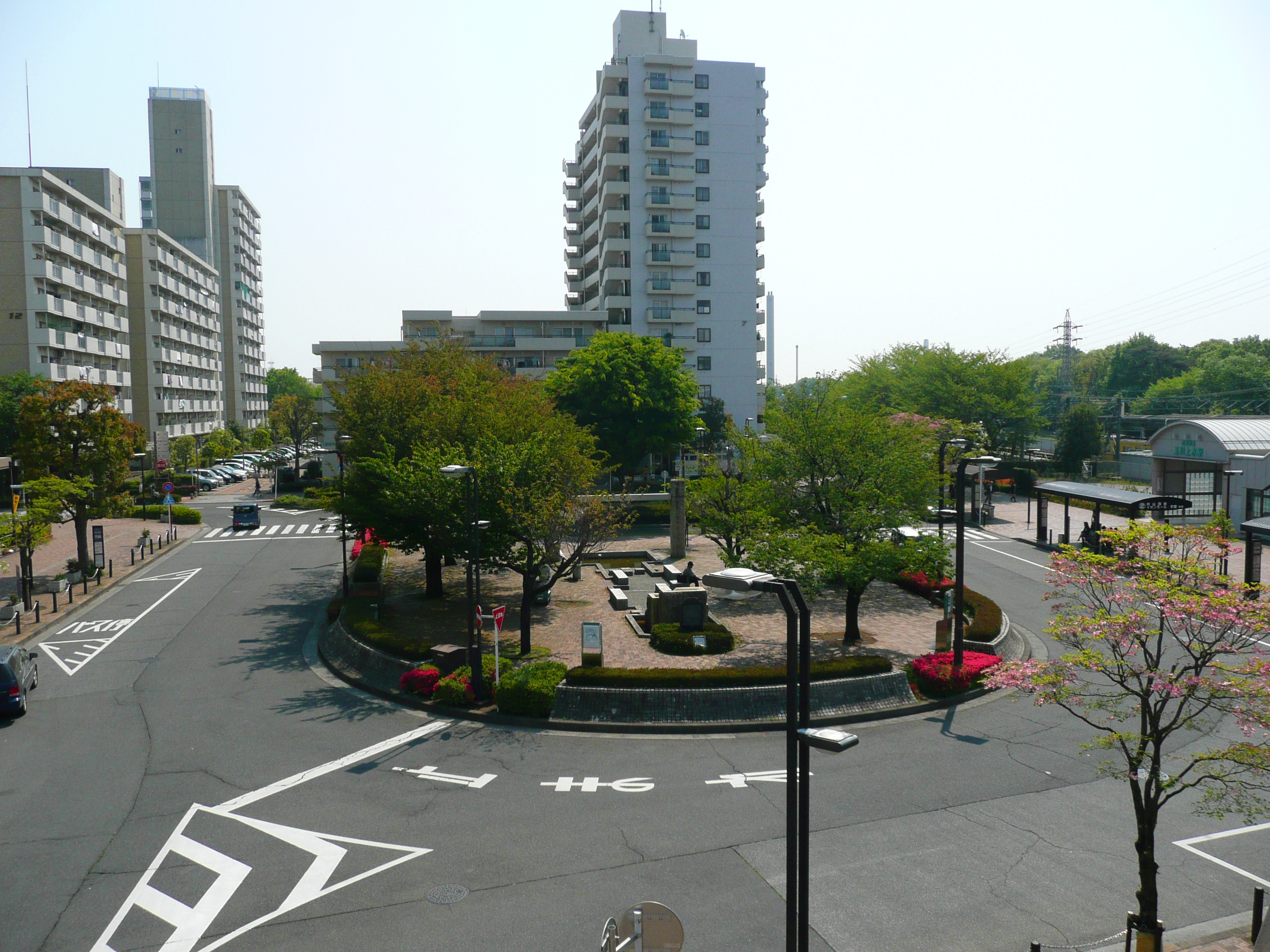 Station square of Tamagawa-Jōsui Station